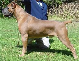 Cane Corso Italiano, Formentino Male at 35 months Author - Leilani Souza